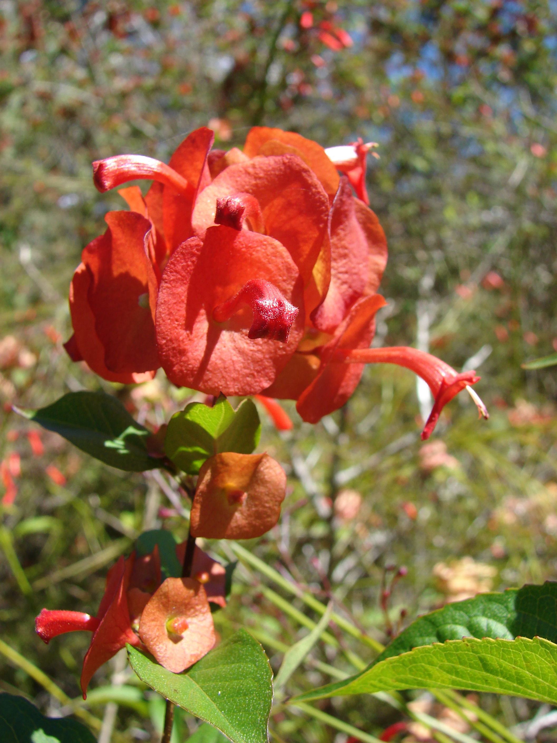 Holmskioldia sanguinea (orange flowers). Location: Maui, Enchanting Floral Gardens of Kula